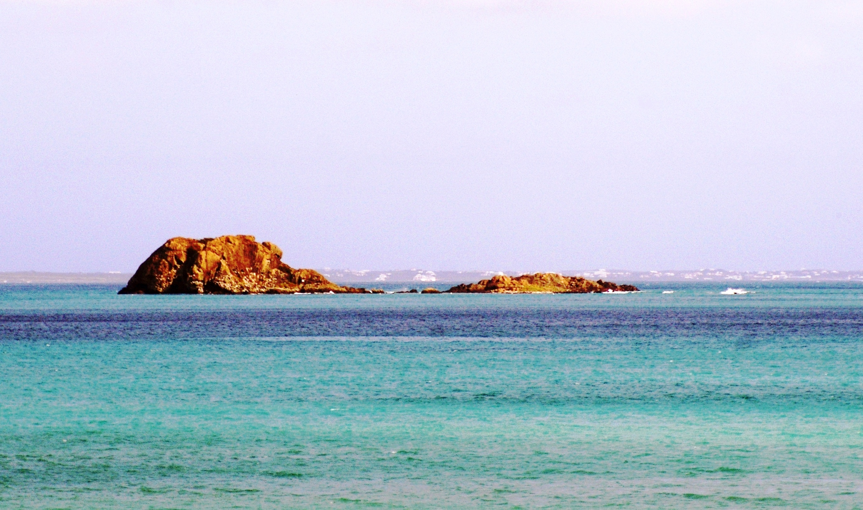 Creol Rock (24 m) in the Bay of Grand Case, Saint Martin. The flat island behind in the north: Anguilla (UK)